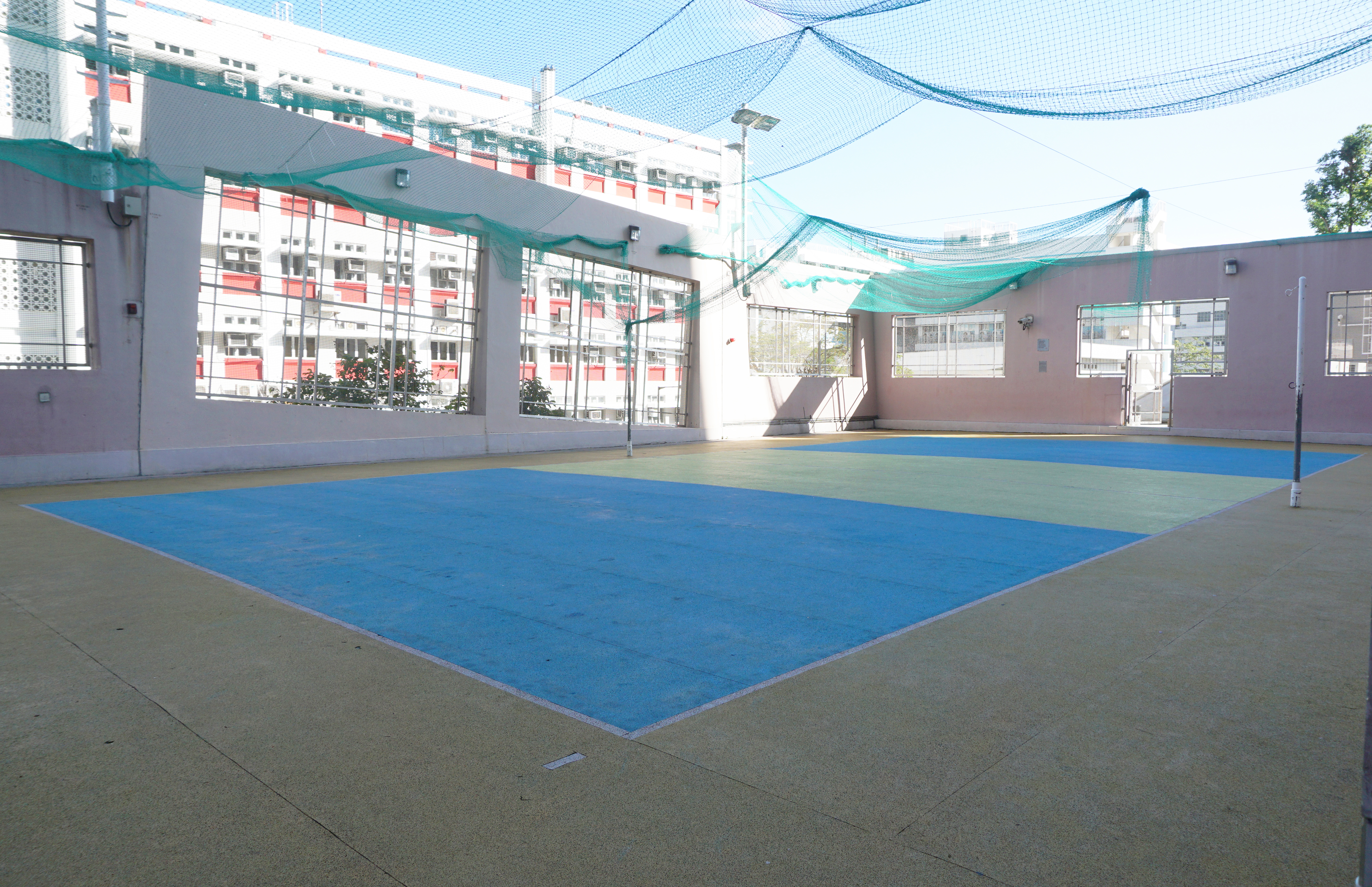 Tsz Hong Estate in Tsz Wan Shan, Hong Kong.